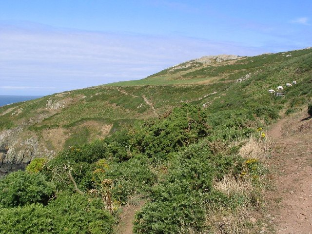 Isle of Anglesey Coastal Path. This image is typical of the coastline along this section of coast with the hills dropping steeply to the sea. The IoA Coastal path can be seen on the left of the picture and then again as it climbs up the slope in the centre of the image.